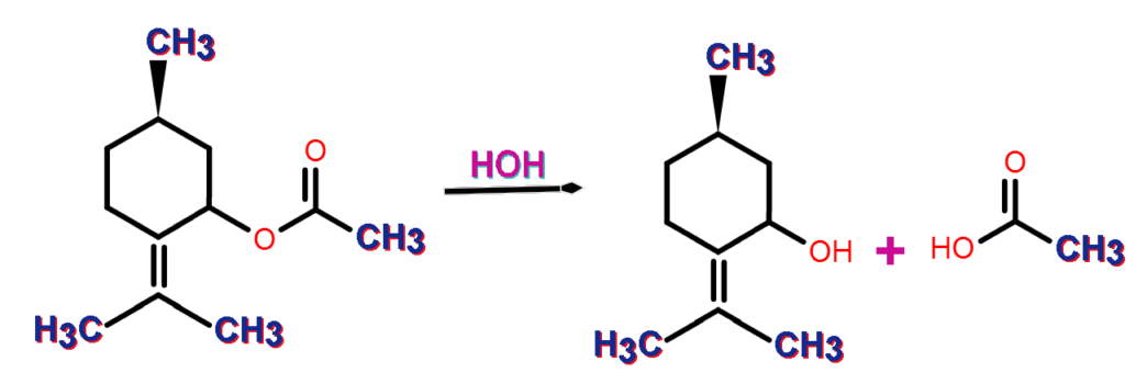 Pulegol synthesis from pulegyl acetate saponification